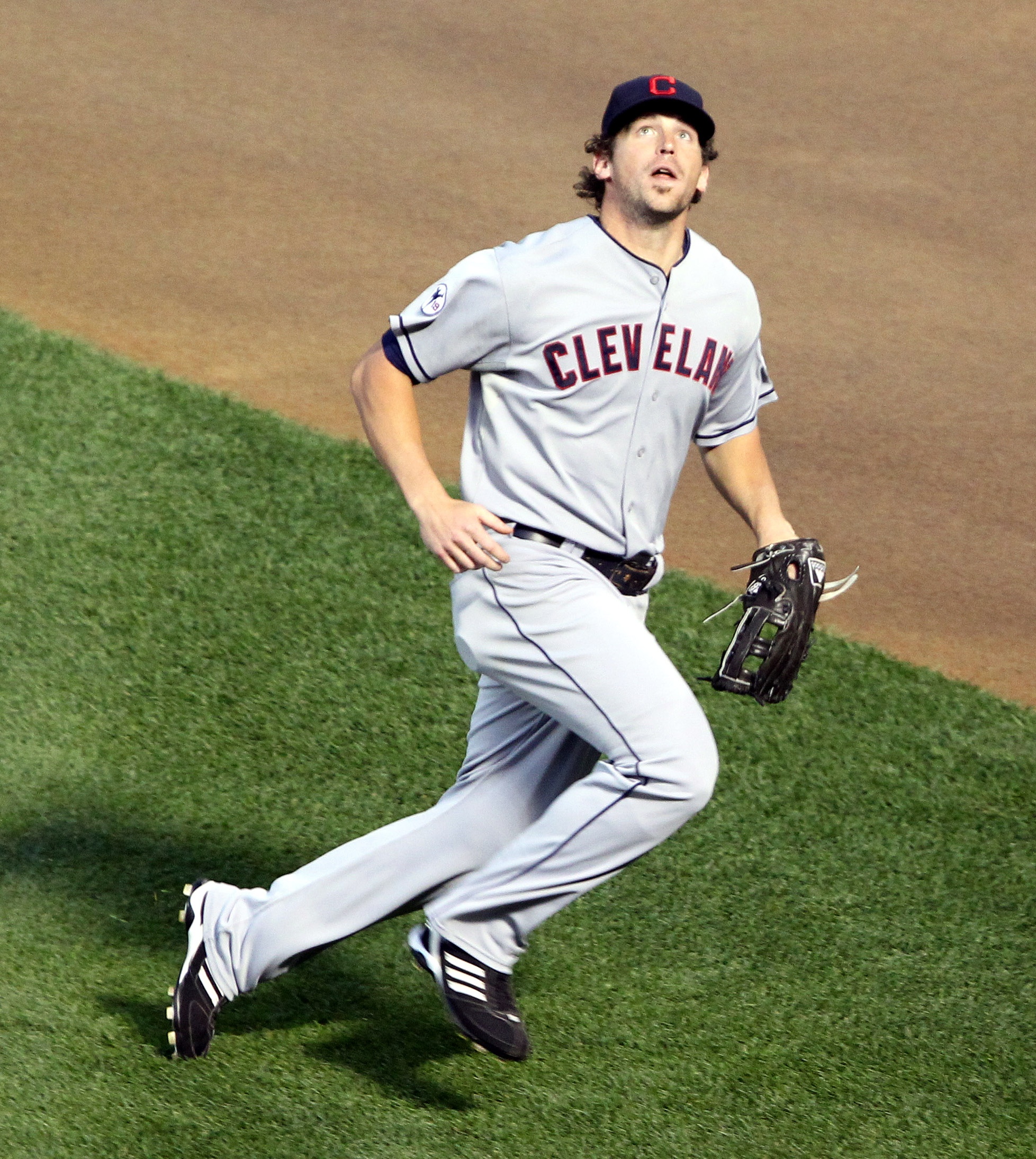 Travis Buck